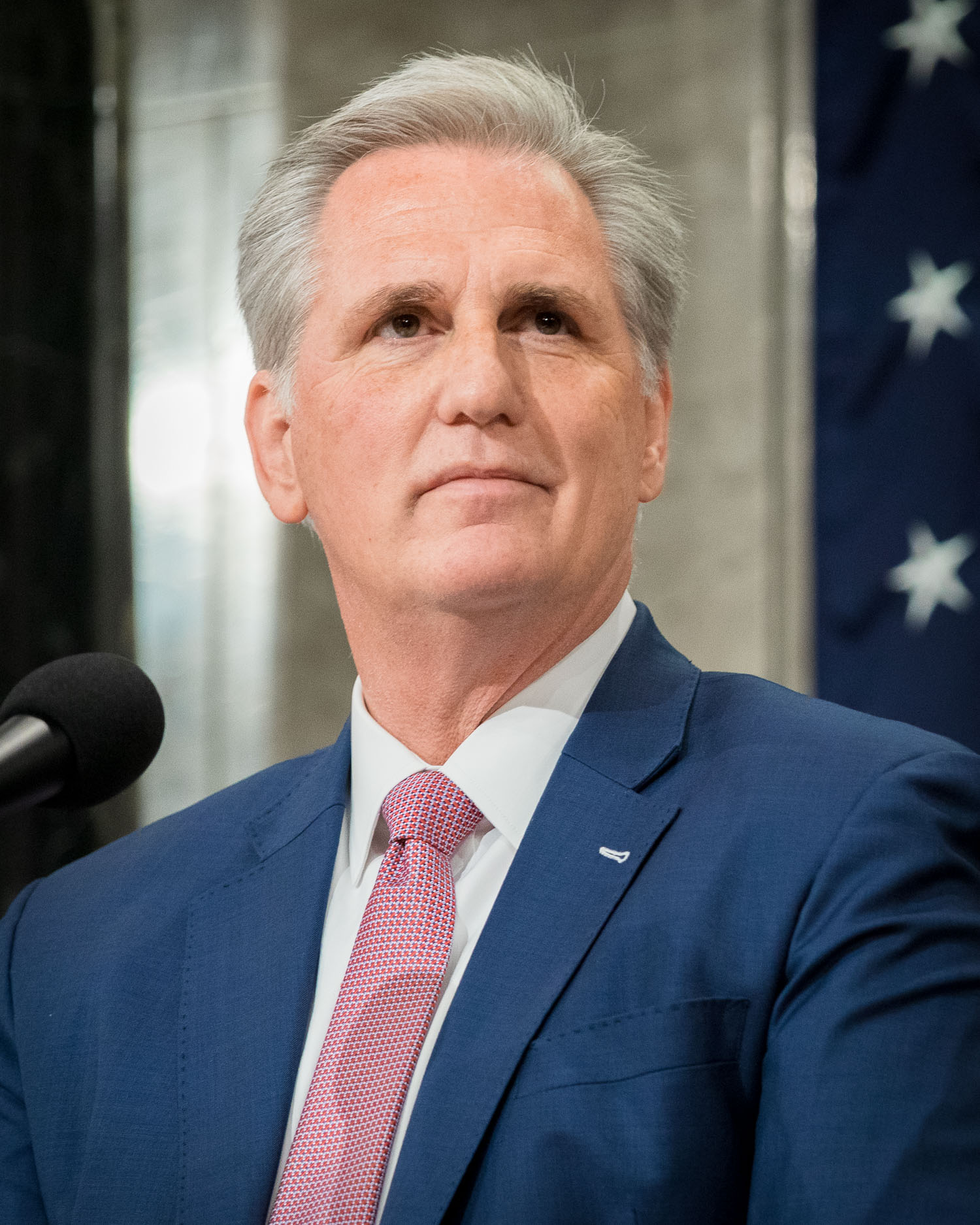 Kevin McCarthy, official photo, 116th Congress